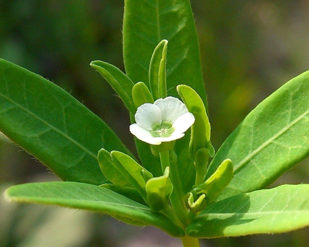 Scientific Name: Euphorbia corollata L. Common Name: Flowering Spurge Certainty: positive (notes) Location: Southern Appalachians; Smokies; CabinCove Date: 20060614 Close-up of "flower" -- actually appendages on glands surrounding minute specialized inflorescences called cyathea: a fine point only a botanist could get excited about.